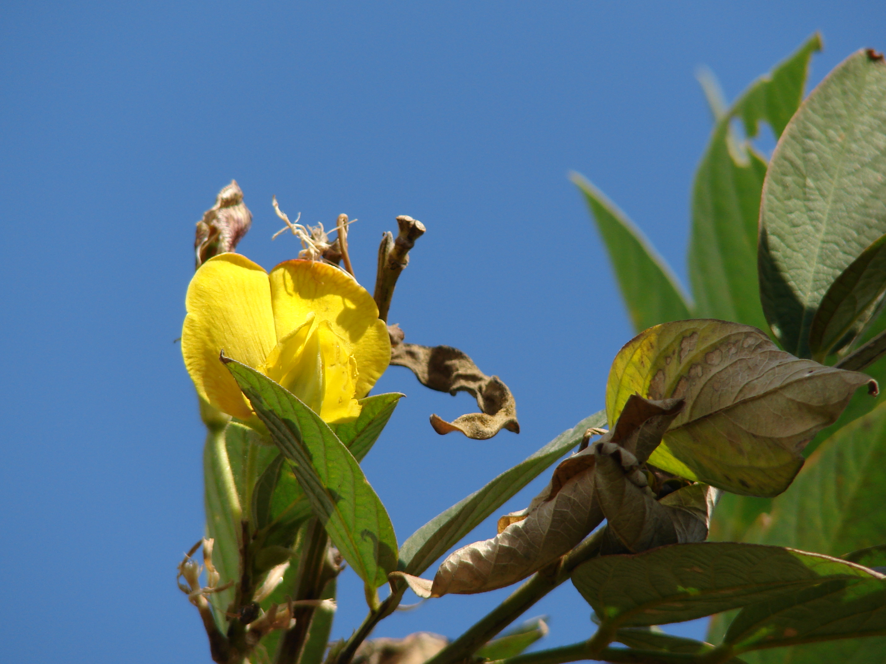 Cajanus cajan (leaves and flowers). Location: Maui, Old macadamia nut orchards Waiehu